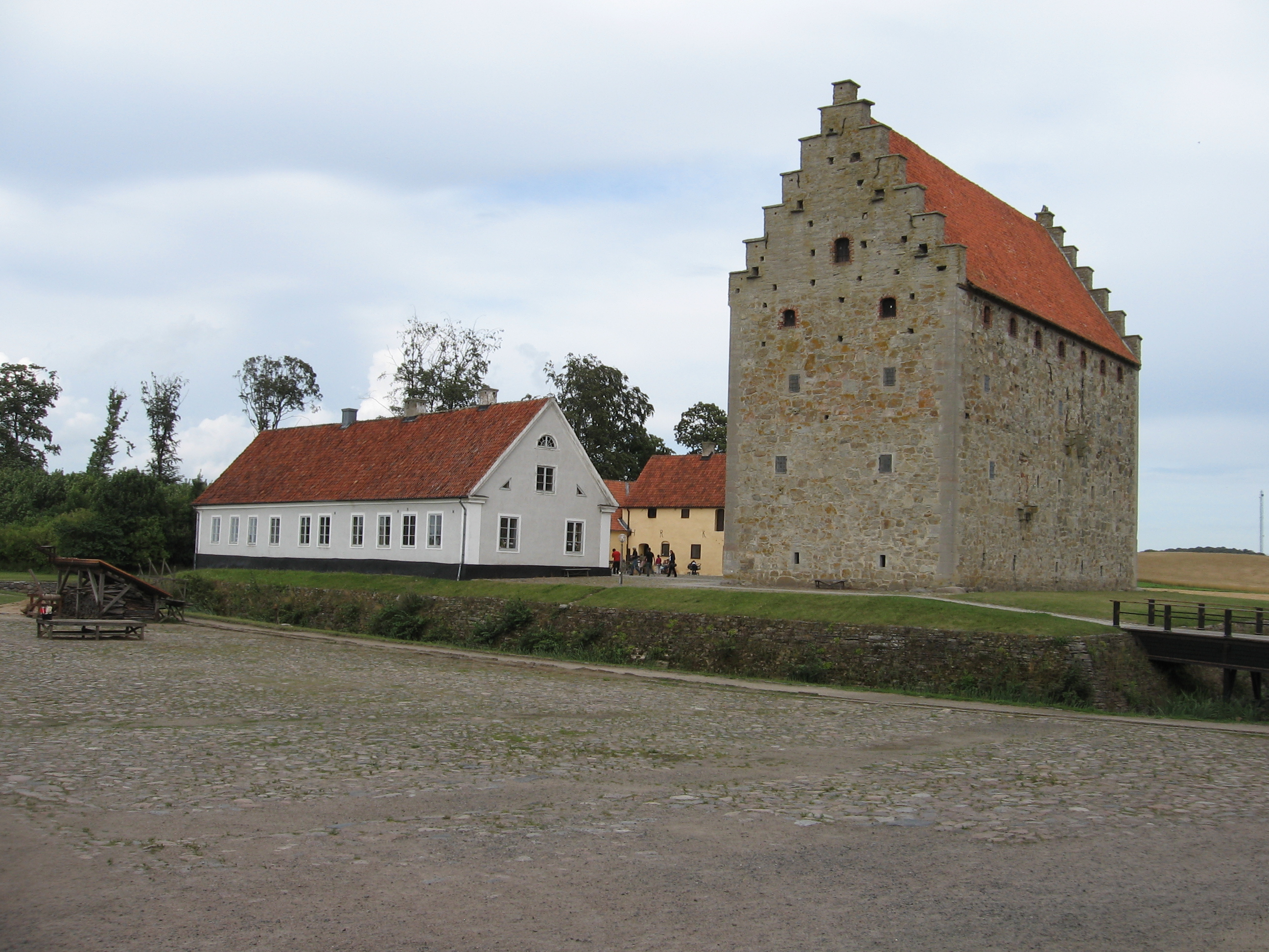 Glimmingehus